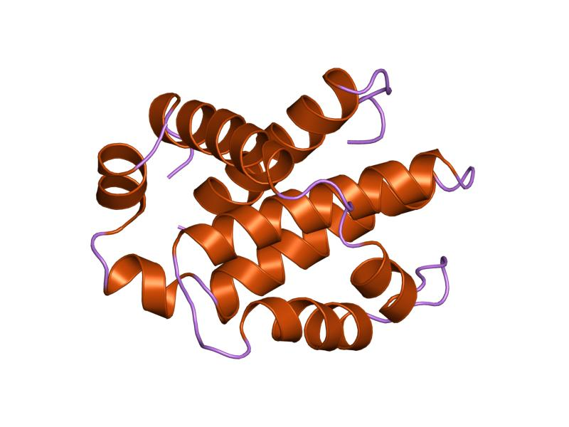 Cartoon representation of the molecular structure of protein registered with 1maz code.